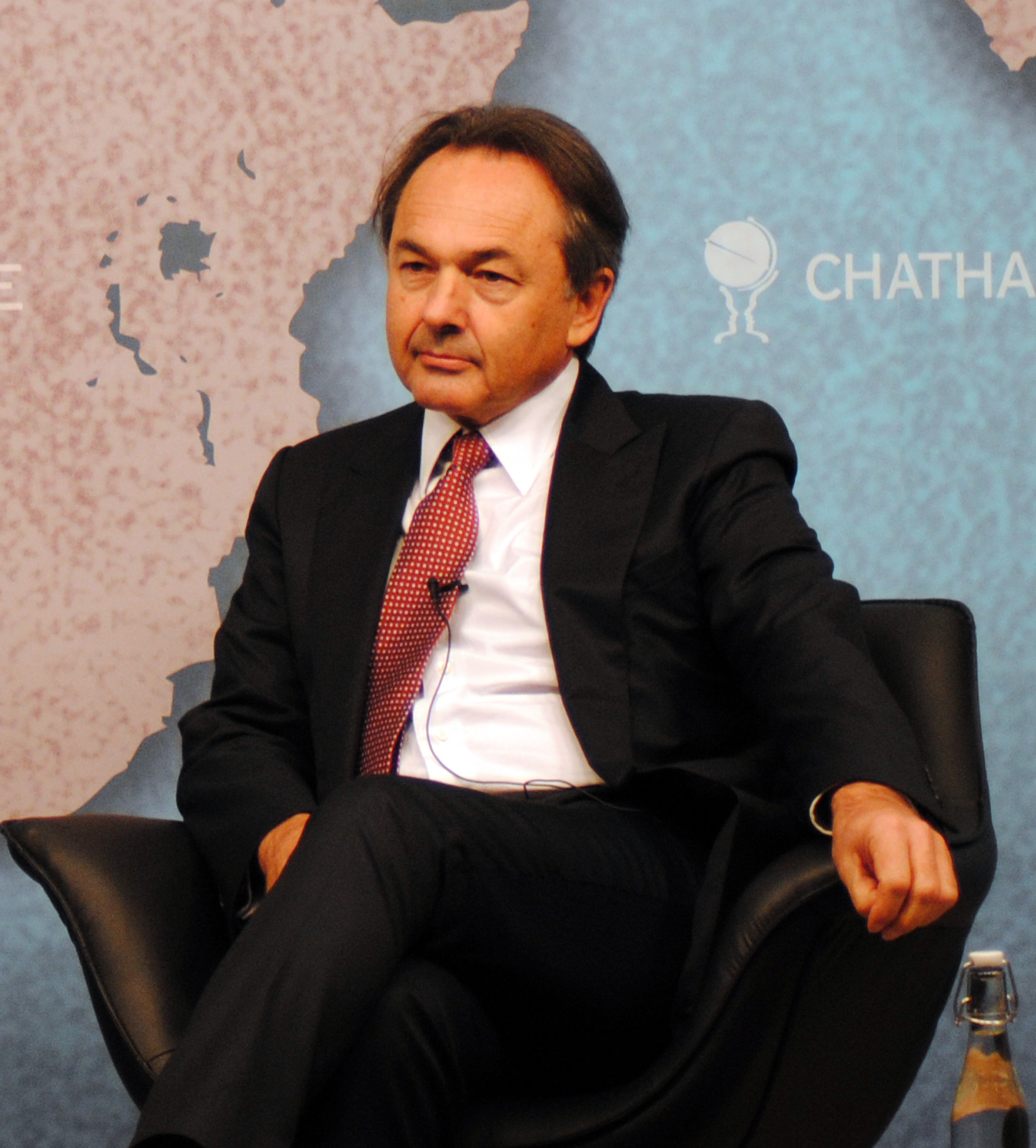 Professor Gilles Kepel, Chair, Middle East and Mediterranean Studies, Institut d’Études Politiques de Paris (Sciences Po) at the Chatham House event The Arab Uprisings: How They Were Different and Why It Matters, Wednesday 21 November 2012